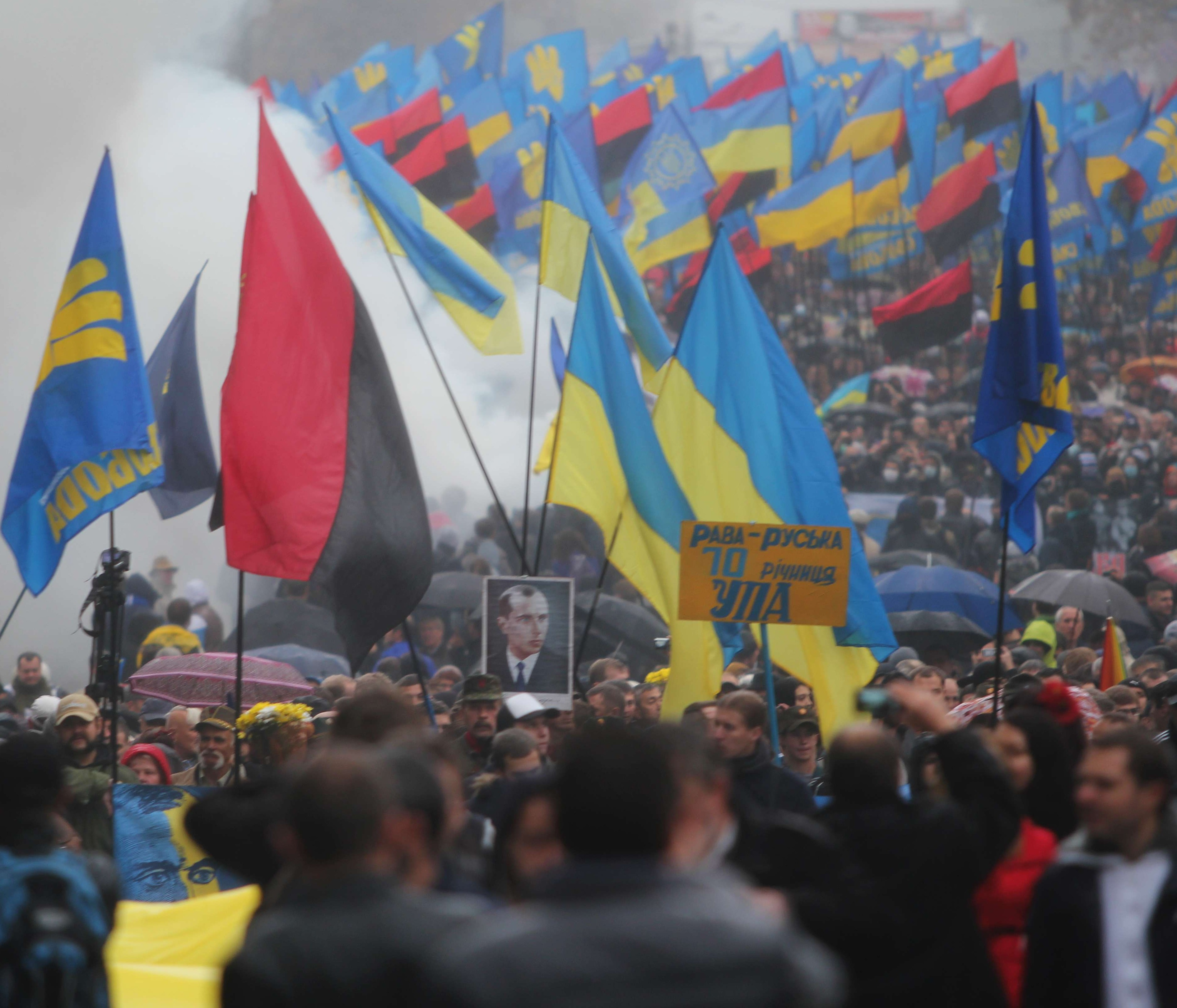 2012 UPA March in Kiev, 14 October 2012.